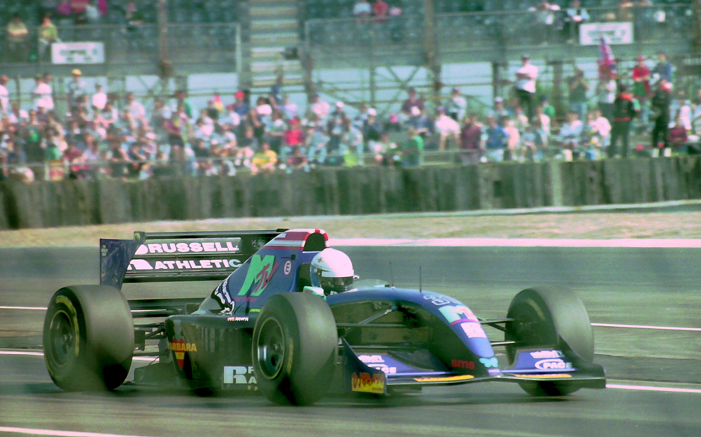 David Brabham - Simtek S941 leaves the pits at the 1994 British Grand Prix